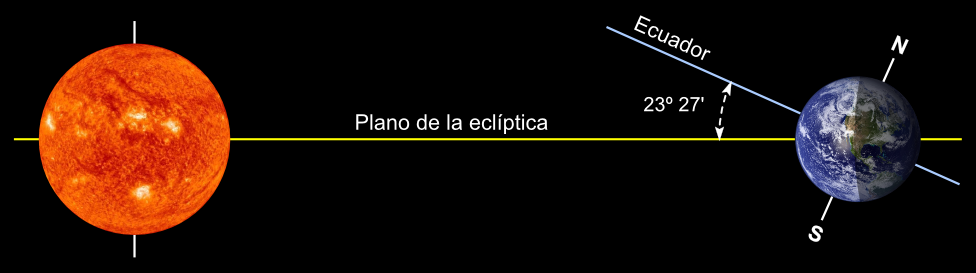 Viewed from a lateral plane scheme gives an idea of the inclination of the axis of rotation of the earth relative to the ecliptic.